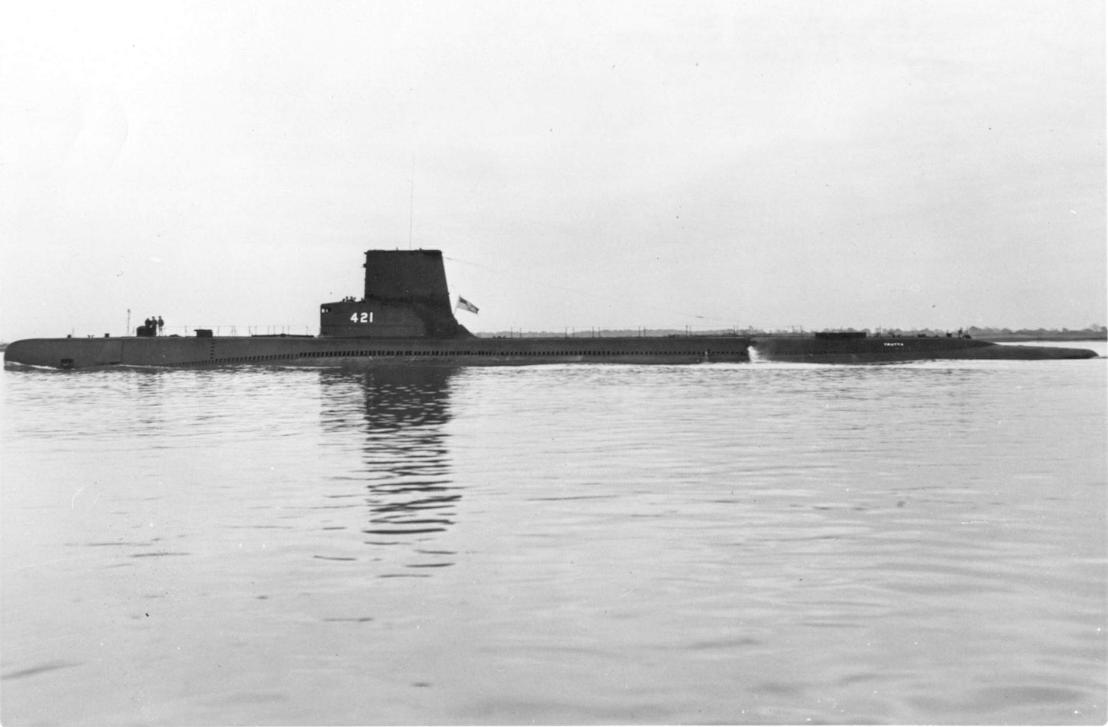 USS Trutta (SS-421) on 27 January 1955.